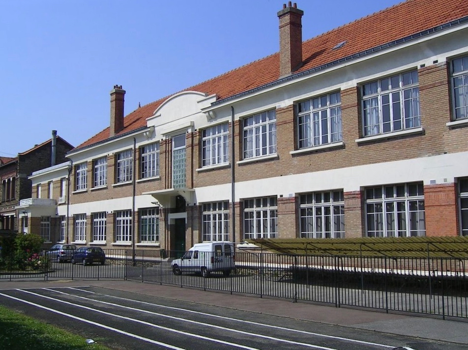 Collège Anatole France, RN3 Photo personnelle (own work) de Marianna